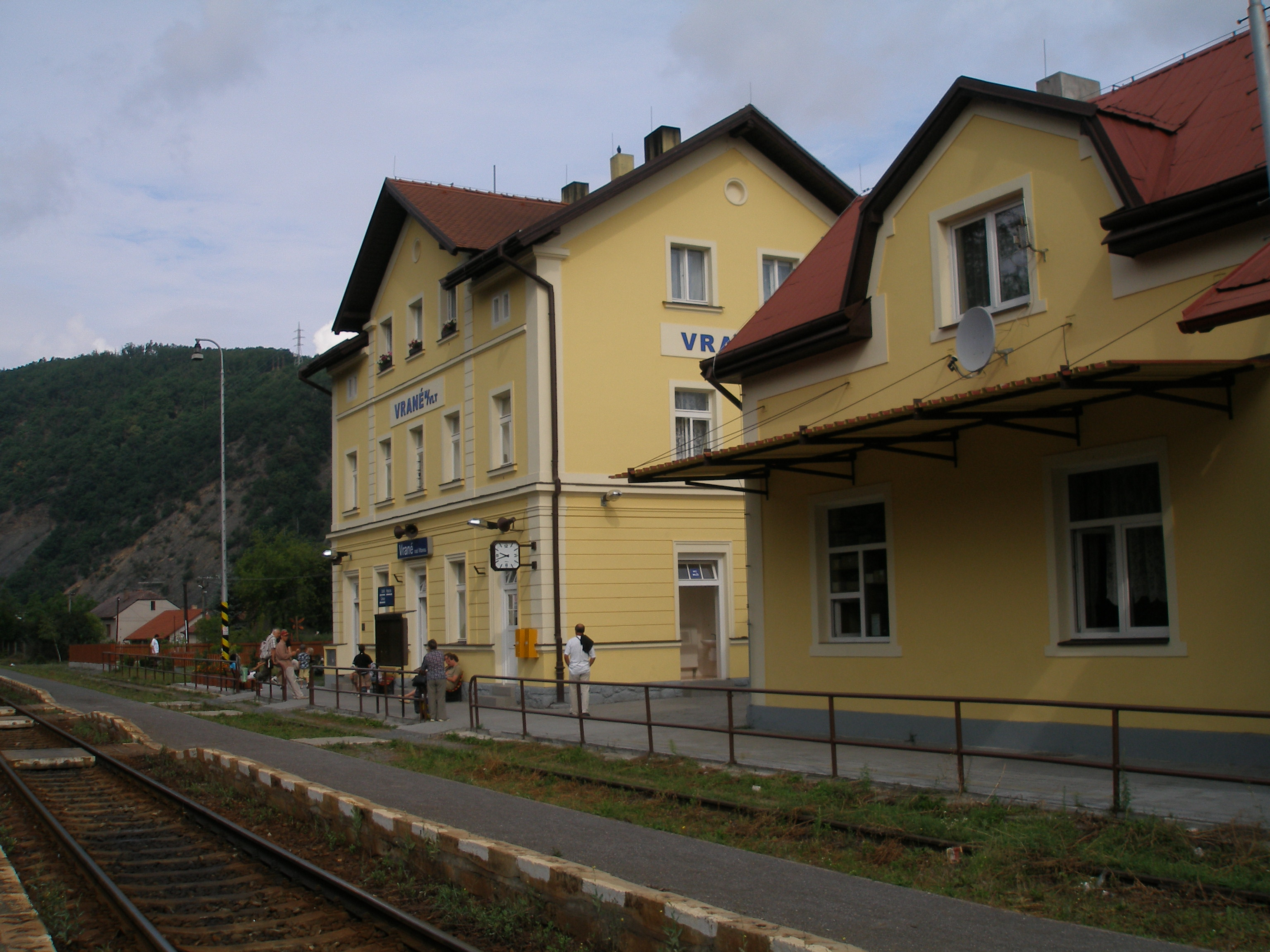 Platform at railway station in Vrané nad Vltavou